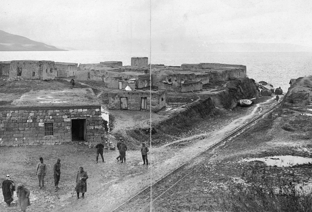 AWM caption : Semakh, North Palestine. September 1918. A portion of the village showing a track and rail line to the jetty with Lake Tiberias in the background.